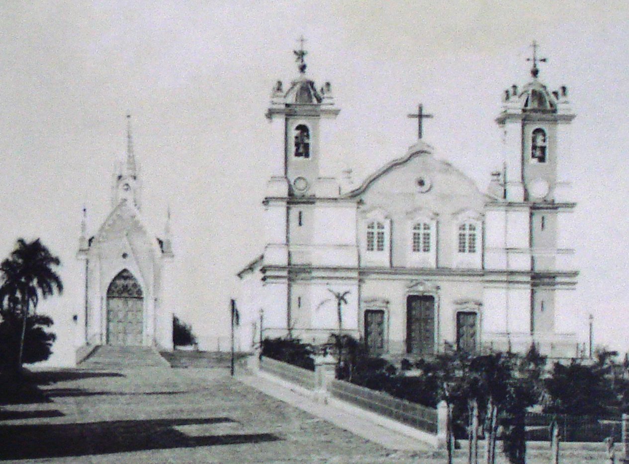 View of the old Mother Church of Porto Alegre. 2nd half of the 19th century. To the left the old chapel Empire of the Holy Ghost. Collection of Joaquim Felizardo Museum, unknown author.